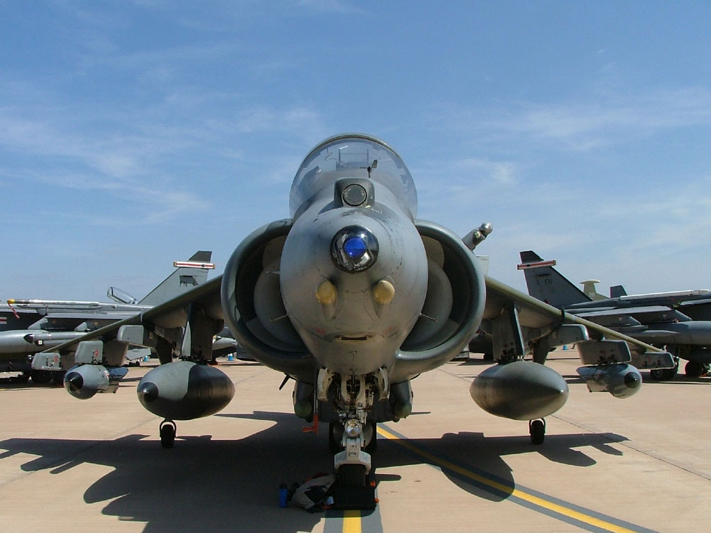 Harrier GR7A at RIAT 2005.